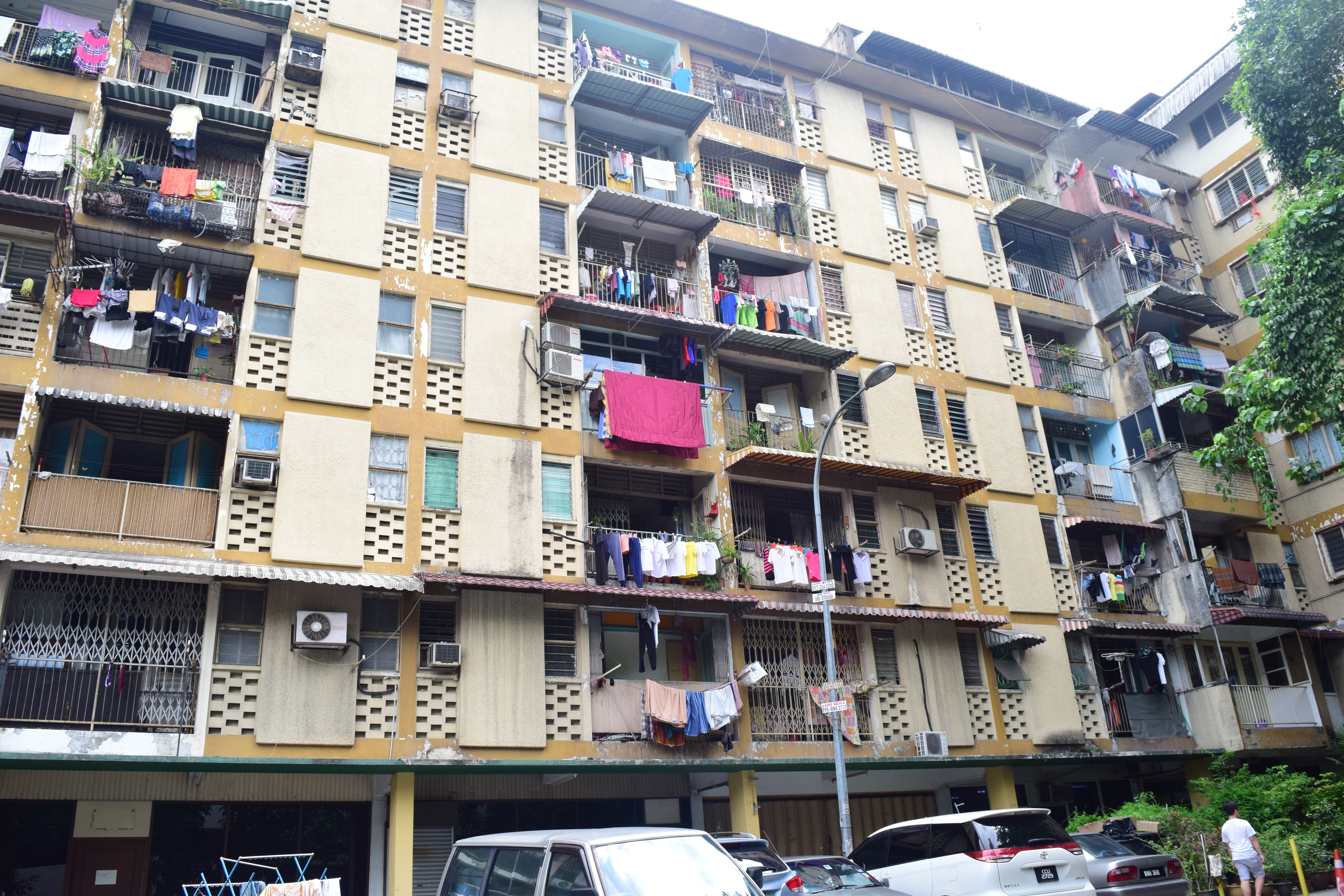 Front View of Blue Boy Mansion